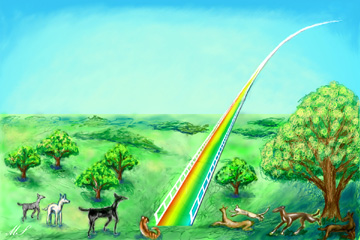 Created by Maris stella, reference